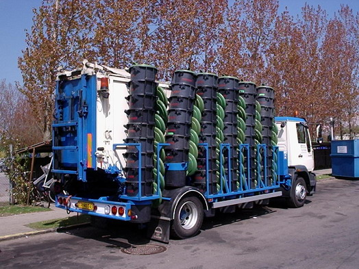 Truck designed for collecting food waste from restaurants and other large kitchens. The food is collected daily, boiled, made to pills and used as pigs food for a test period. Loaded with clean 40 and 60 litre containers which will be used for replacing the used ones in the kitchens.